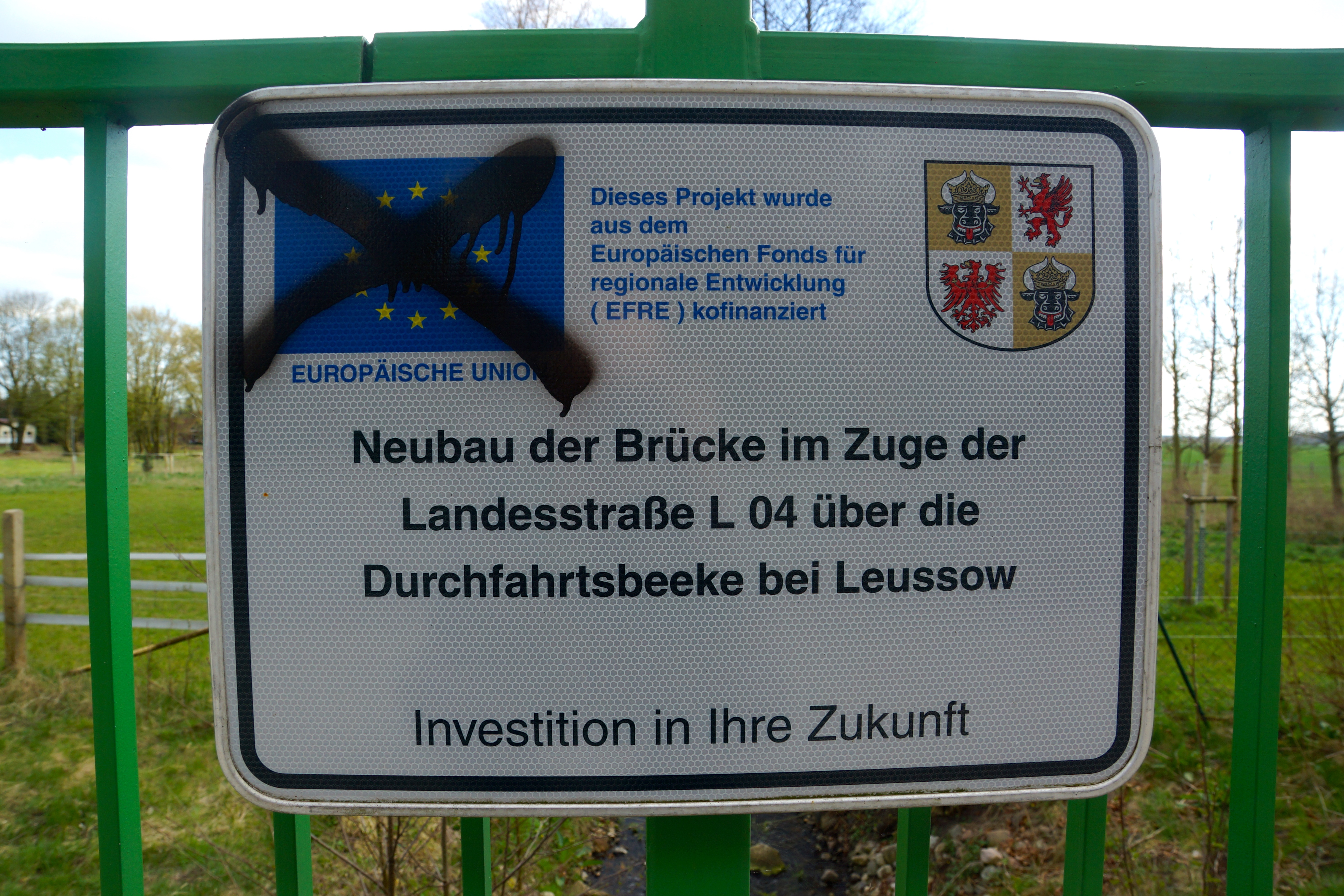 Leussow, Germany: Plaque at the bridge over the river Durchfahrtsbeeke at the Lindenstrasse